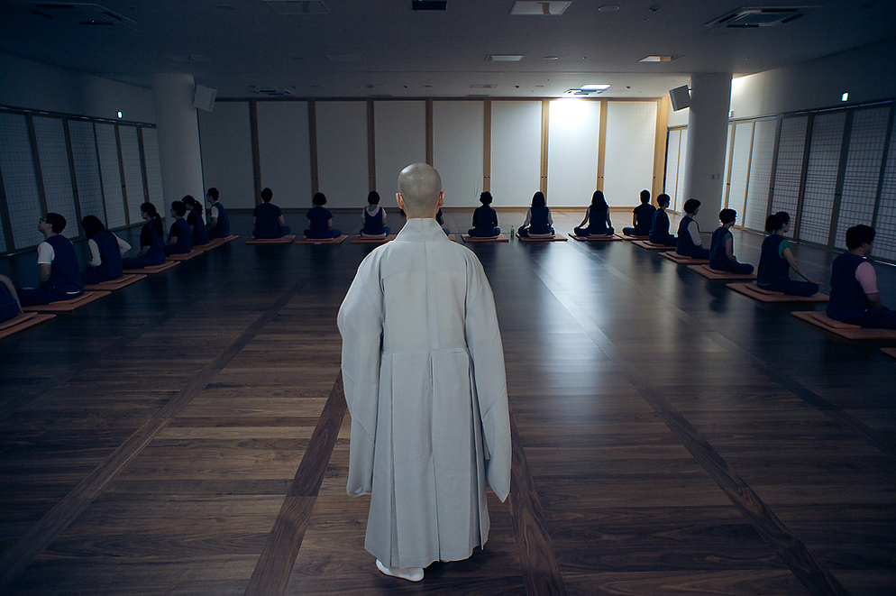 InternationalSeonCenter_2